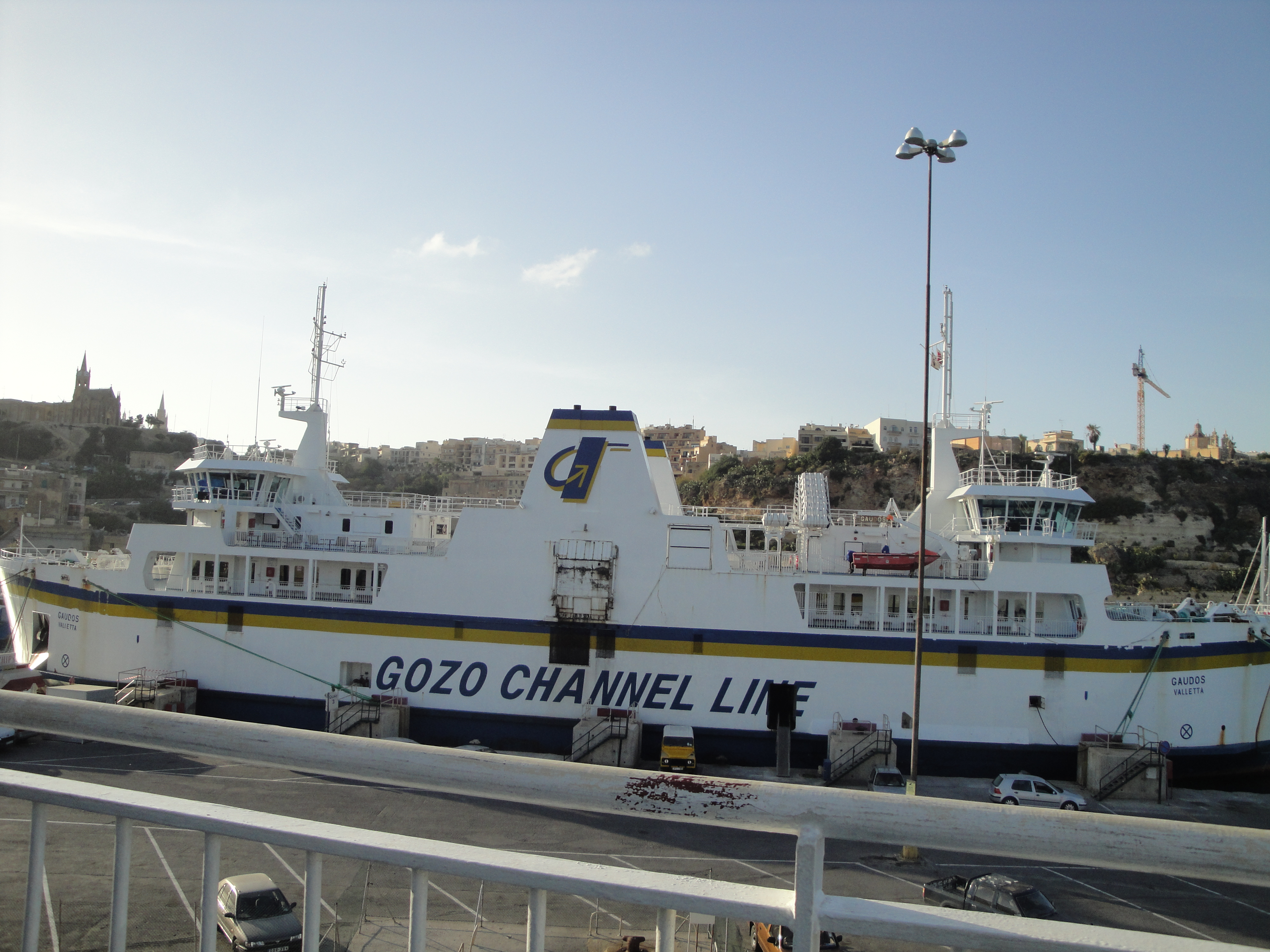 Gozo Channel Line